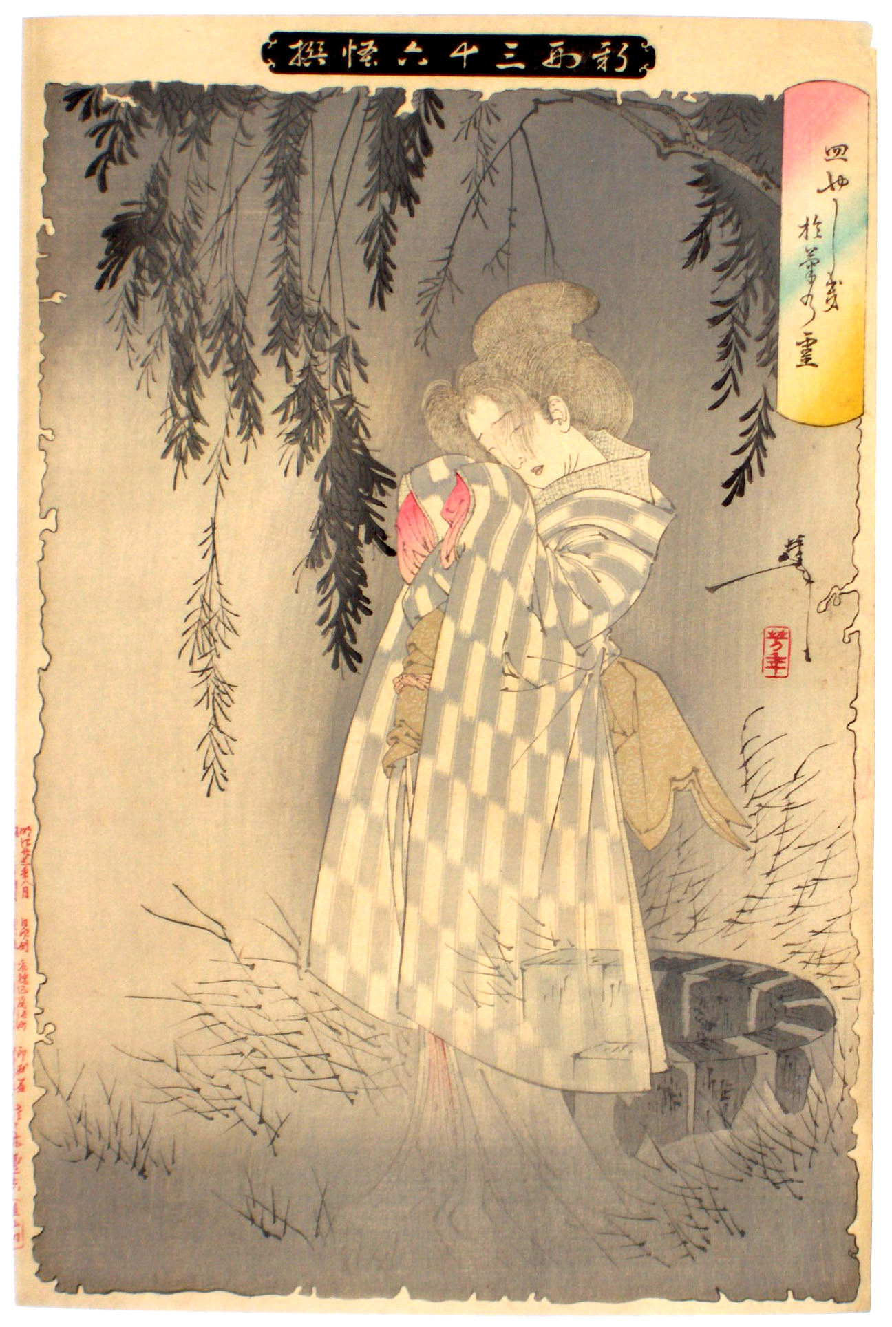 The print depicts the ghost of Okiku appearing by the well in which her master, Aoyama Tessan, murdered her. From the Thirty-six Ghosts series. 9.25" x 14.25".